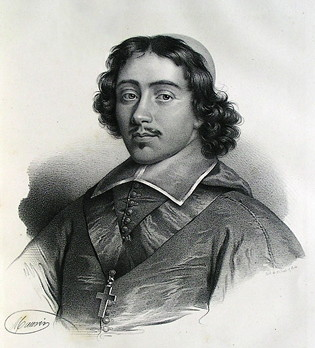 Jean François Paul de Gondi, cardinal de Retz (1613 – 1679)